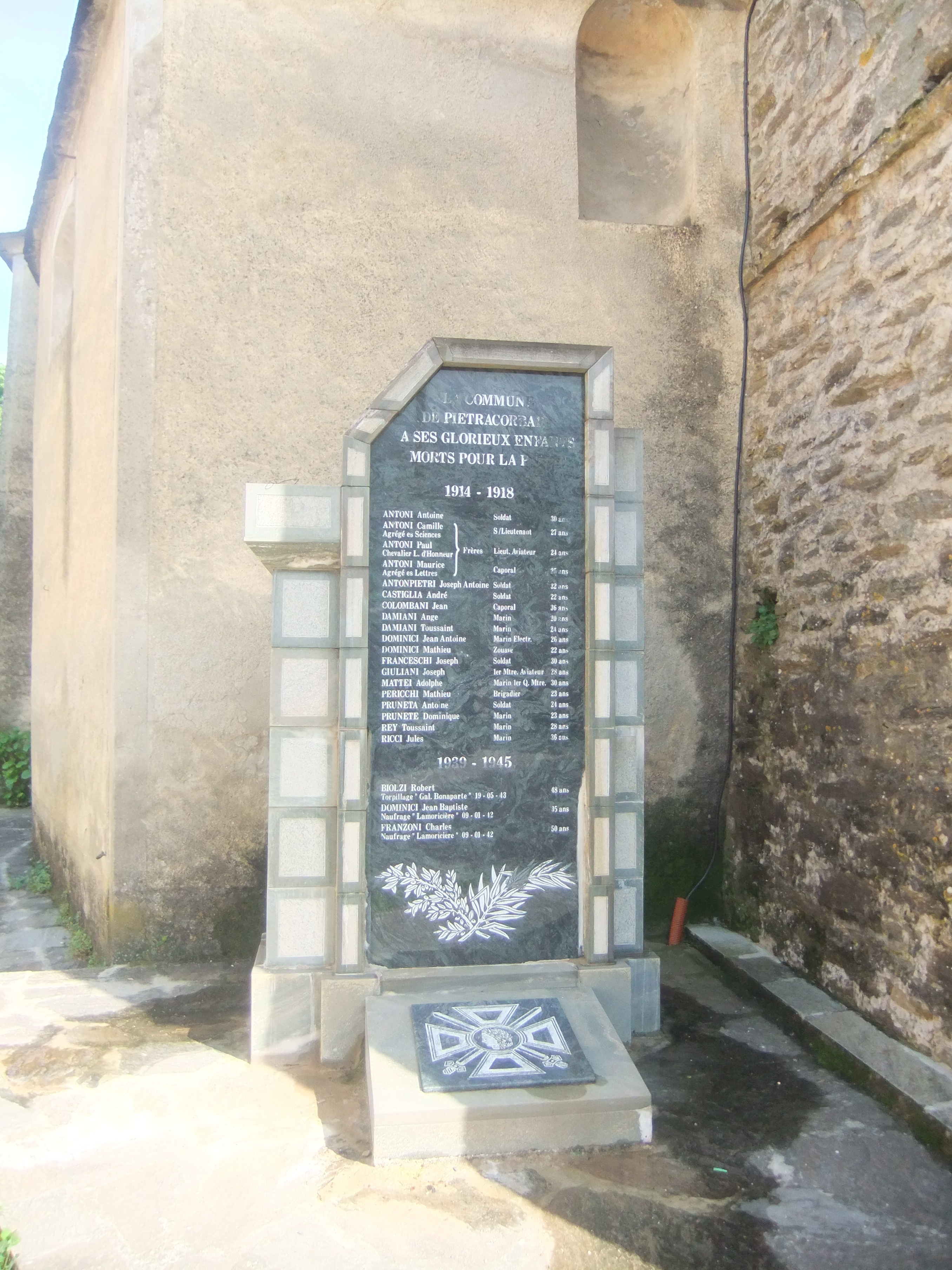 War memorial at Pietracorbara, Haute-Corse department, France.